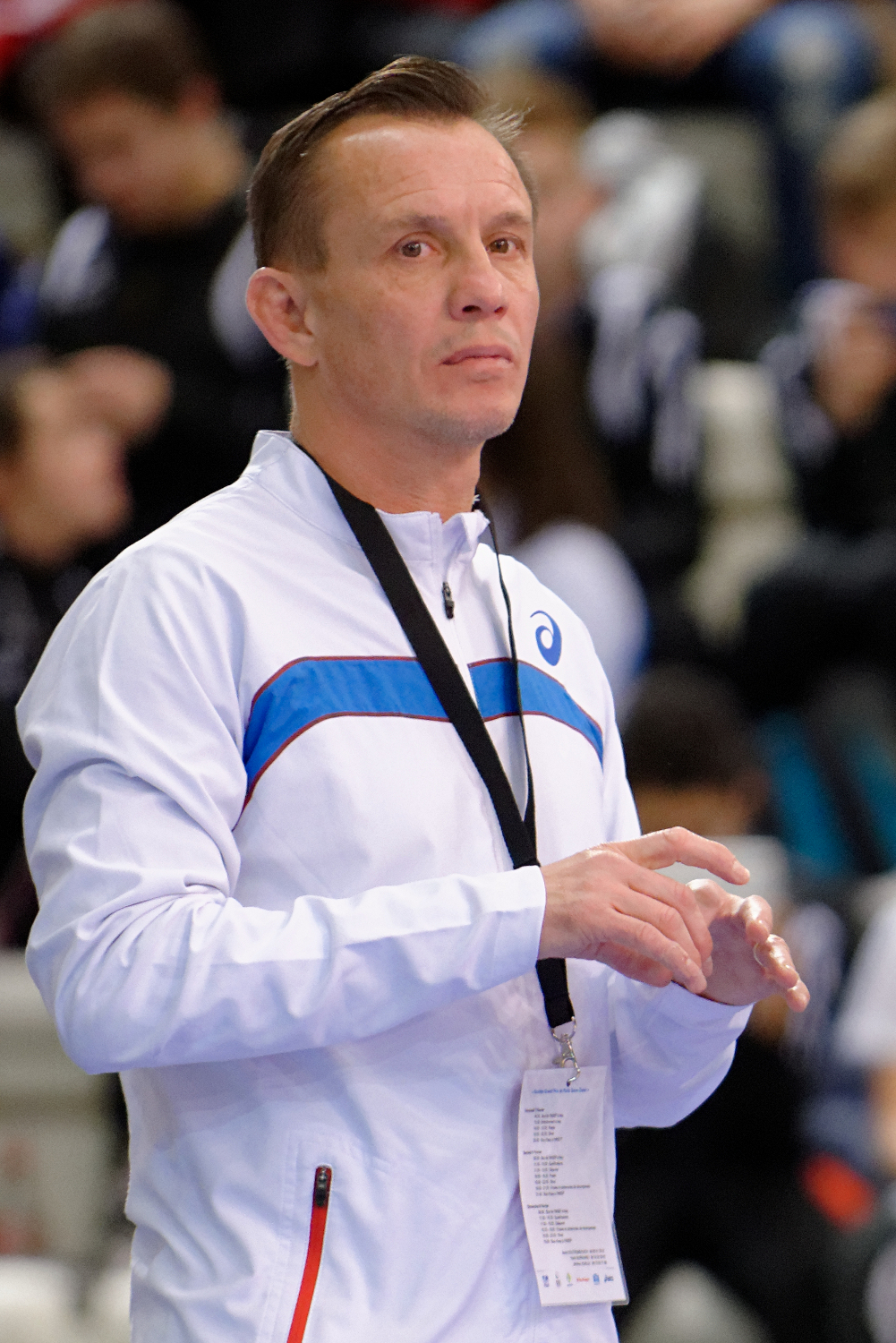 France Greco-Roman coach Patrice Mourier at the Golden Grand Prix of Paris.